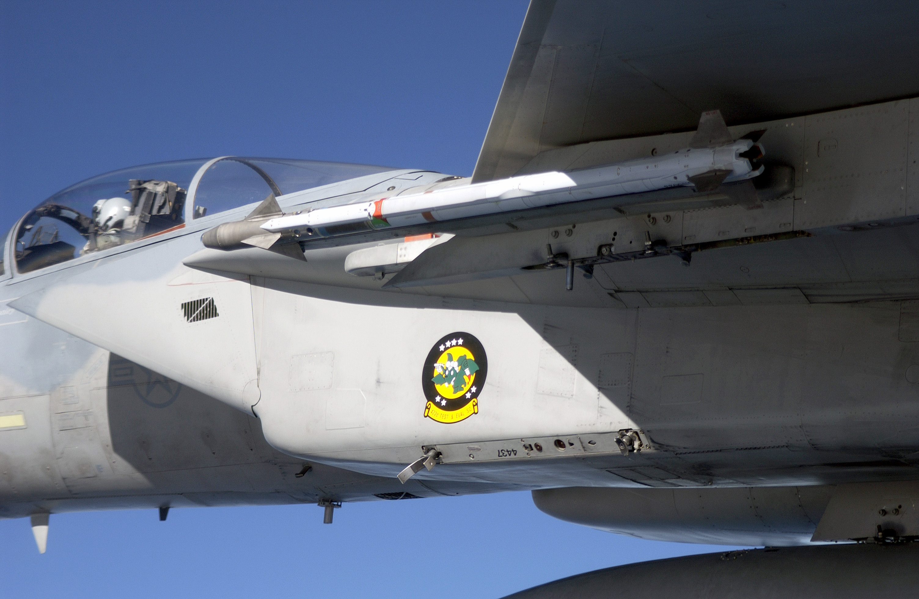 A close up view showing an AIM-9X Sidewinder short-range, heat-seeking air intercept missile attached to the port side inboard wing pylon of a US Air Force (USAF) McDonnell Douglas F-15C Eagle aircraft assigned to Detachment 1, 422nd Test & Evaluation Squadron, Nellis Air Force Base (AFB), Nevada (NV), during an evaluation flight conducted over the Gulf of Mexico by the Air Force Operational Test and Evaluation Center, Detachment 2, located at Eglin AFB, Florida (FL) on 7 Nov 2002. Also an extremley good image of the empty Sparrow/Amraam pylon in flight mode with the mechanism that ejects the missiel from the body of the plane clearly visible